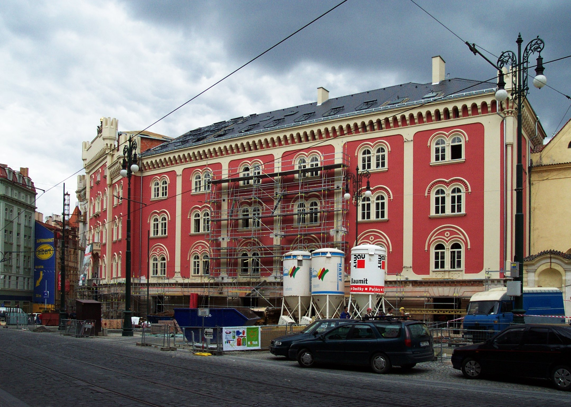 Building of the future department store in Prague, Náměstí republiky square